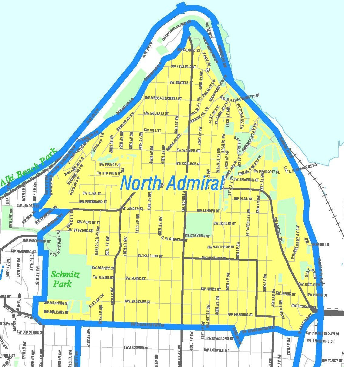 Map of Seattle's North Admiral neighborhood / Admiral District. Like the other maps from the Seattle City Clerk's Neighborhood Map Atlas, this is not an official map; in particular, borders are not official. Disclaimer: The Seattle Neighborhood Atlas, which the Seattle Clerk's Office has placed in the public domain (as confirmed by OTRS ticket 2008033110016048) contains some general commentary on the maps, "About Maps", which should typically be linked as an accompaniment to these maps to (in their words) "minimize the numerous 'complaints' or comments by users who feel it necessary to point out how the Clerk's Office is 'wrong' about a certain section of town." In particular, "About Maps" says that the atlas "is designed for subject indexing of legislation, photographs, and other documents in the City Clerk's Office and Seattle Municipal Archives" and "is not designed or intended as an 'official' City of Seattle neighborhood map. There are many different ideas of what neighborhood districts exist in Seattle and what their names are…"